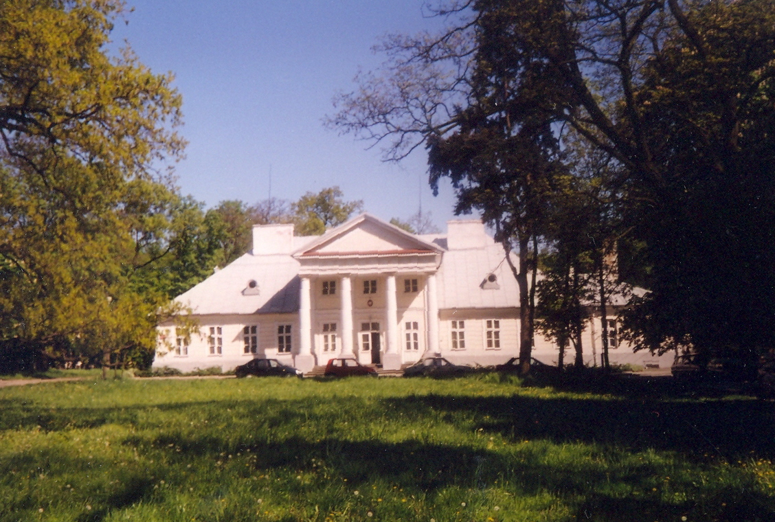 Palace in Sochaczew Czerwonka